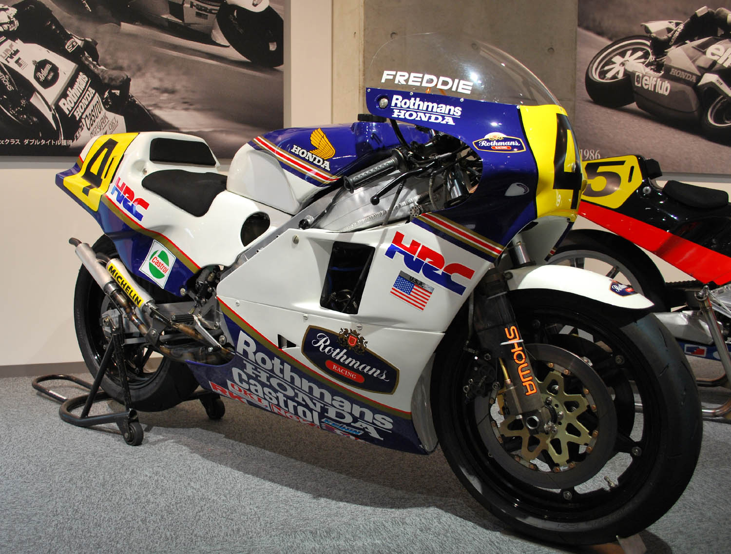 Honda NSR500 (Freddie Spencer, 1985)